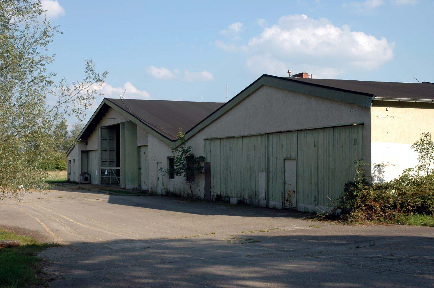 last remaining buildings at Camp Redleg, Heilbronn (Germany)